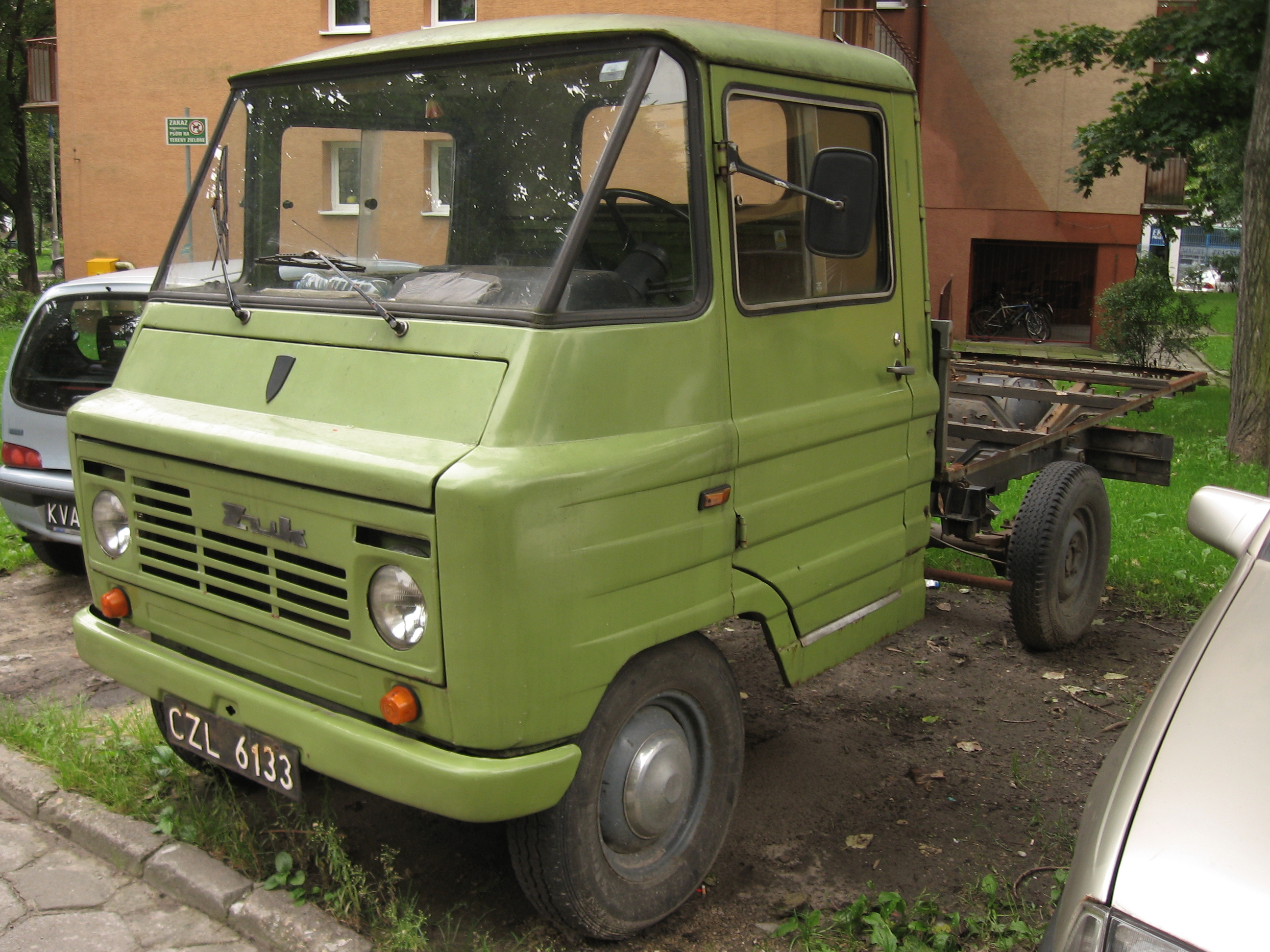 FSC Żuk chassis with in Kraków, Poland.